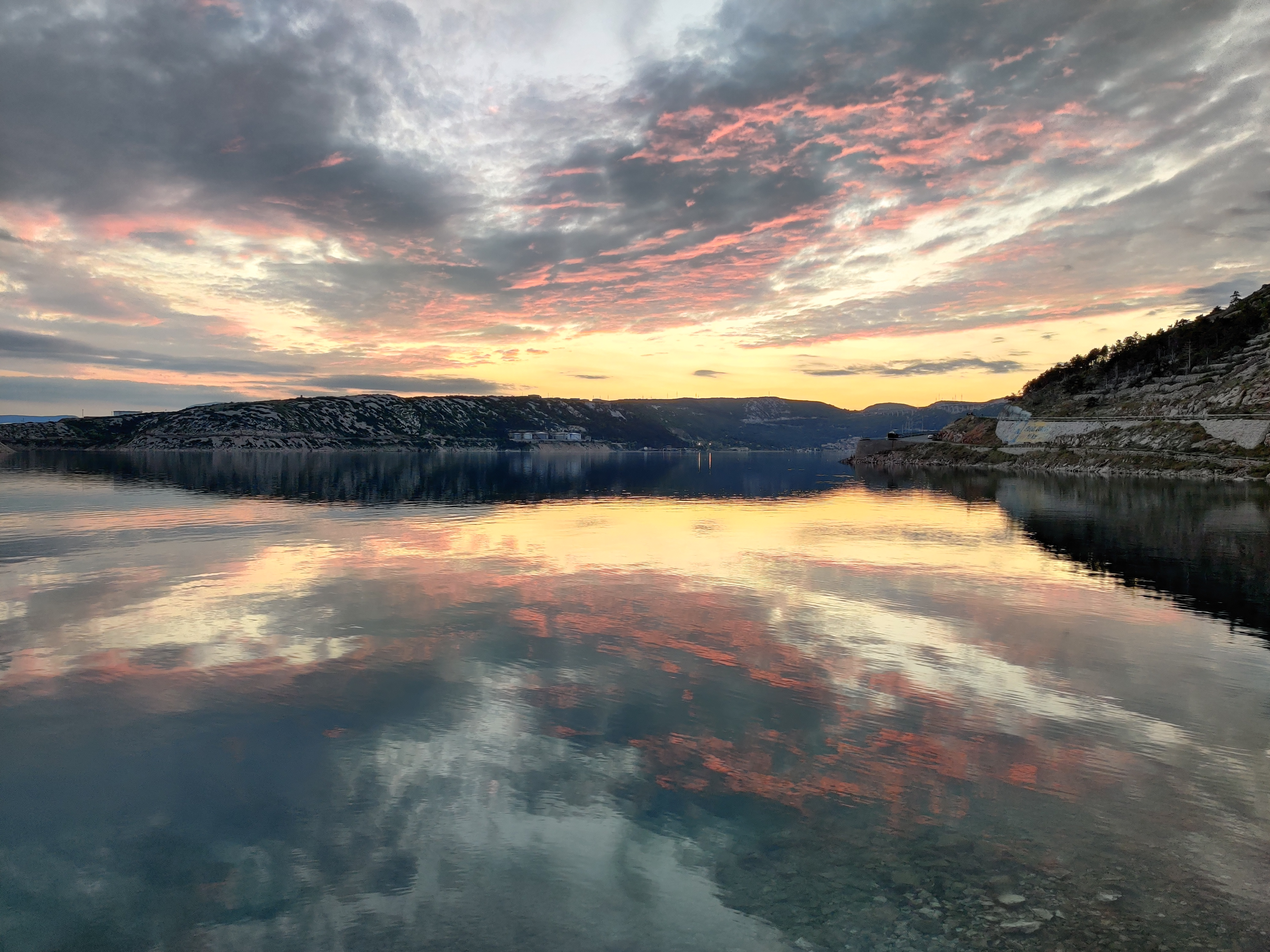 Port of INA Urinj Refinery in Bakar Srpskohrvatski / српскохрватски: Transportna luka Rafinerije nafte Urinj INA, pogled iz Bakarca